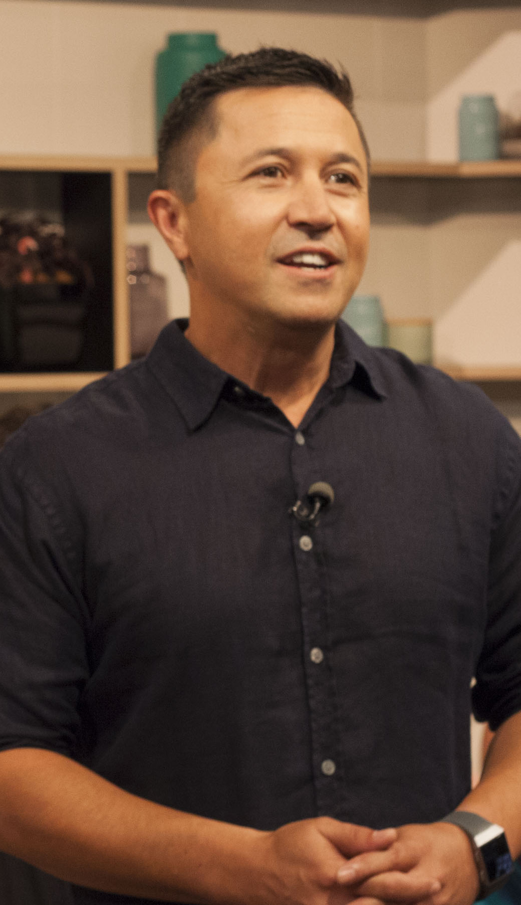 New Zealand Television Presenter Mike Puru - 2018